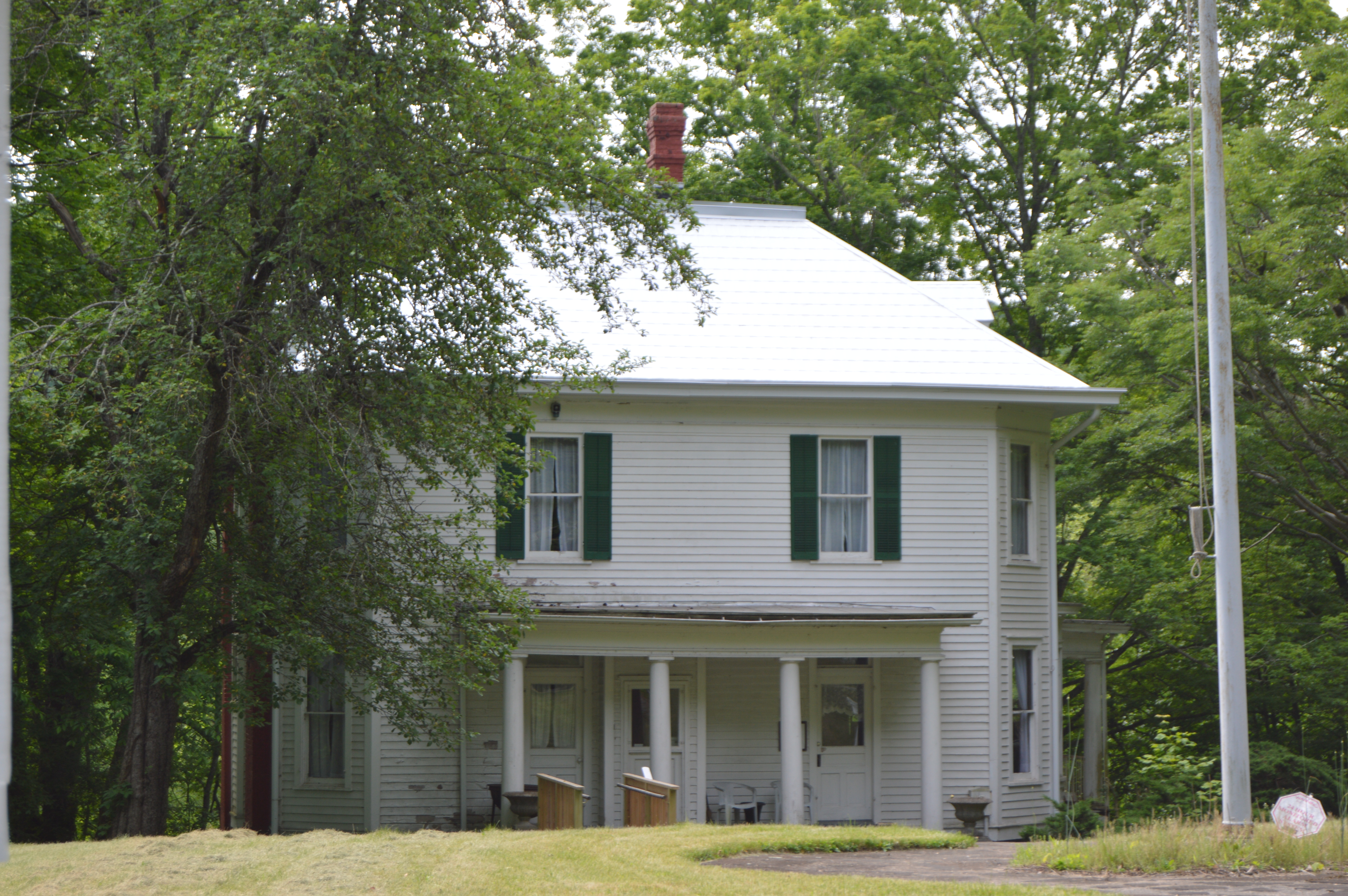 Front of the Frank and Anna Hunter House (now a history museum), located along U.S. Route 219/WV 39/WV 55 in Marlinton, West Virginia, United States. Built in 1903, it is listed on the National Register of Historic Places.